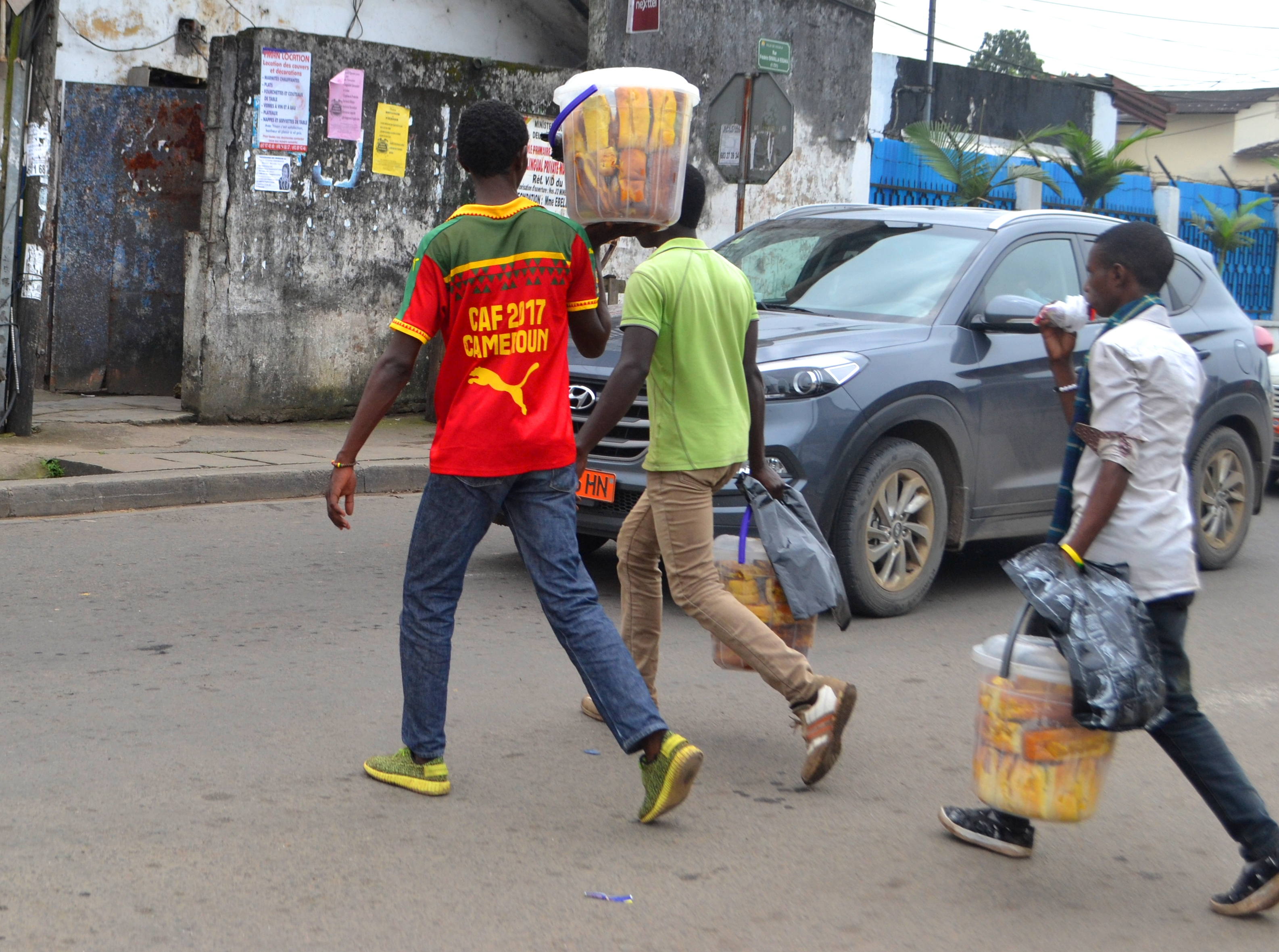 A group of three street vendors selling bread in buckets crossing the road in Douala. This is an image of "African people at work" from Cameroon